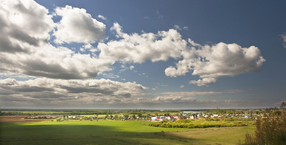 Views and landscapes Izborsk Valley